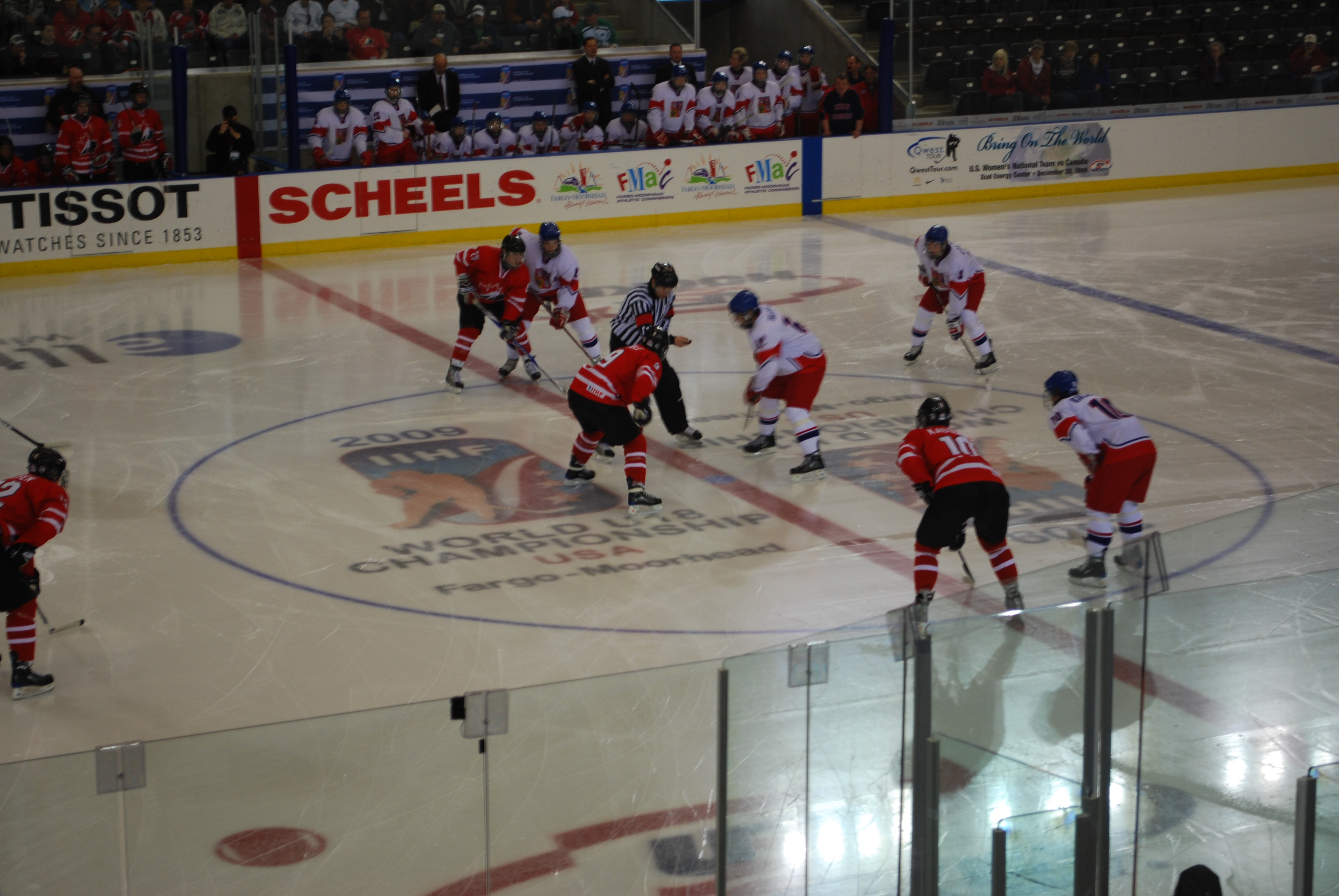 Canada vs Czech Republic match, 2009 IIHF World U18 Championships.